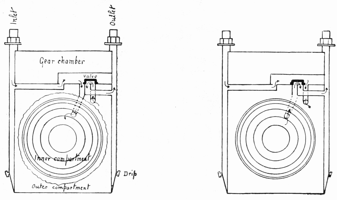 Diagrammatic representation of gas meter and flow